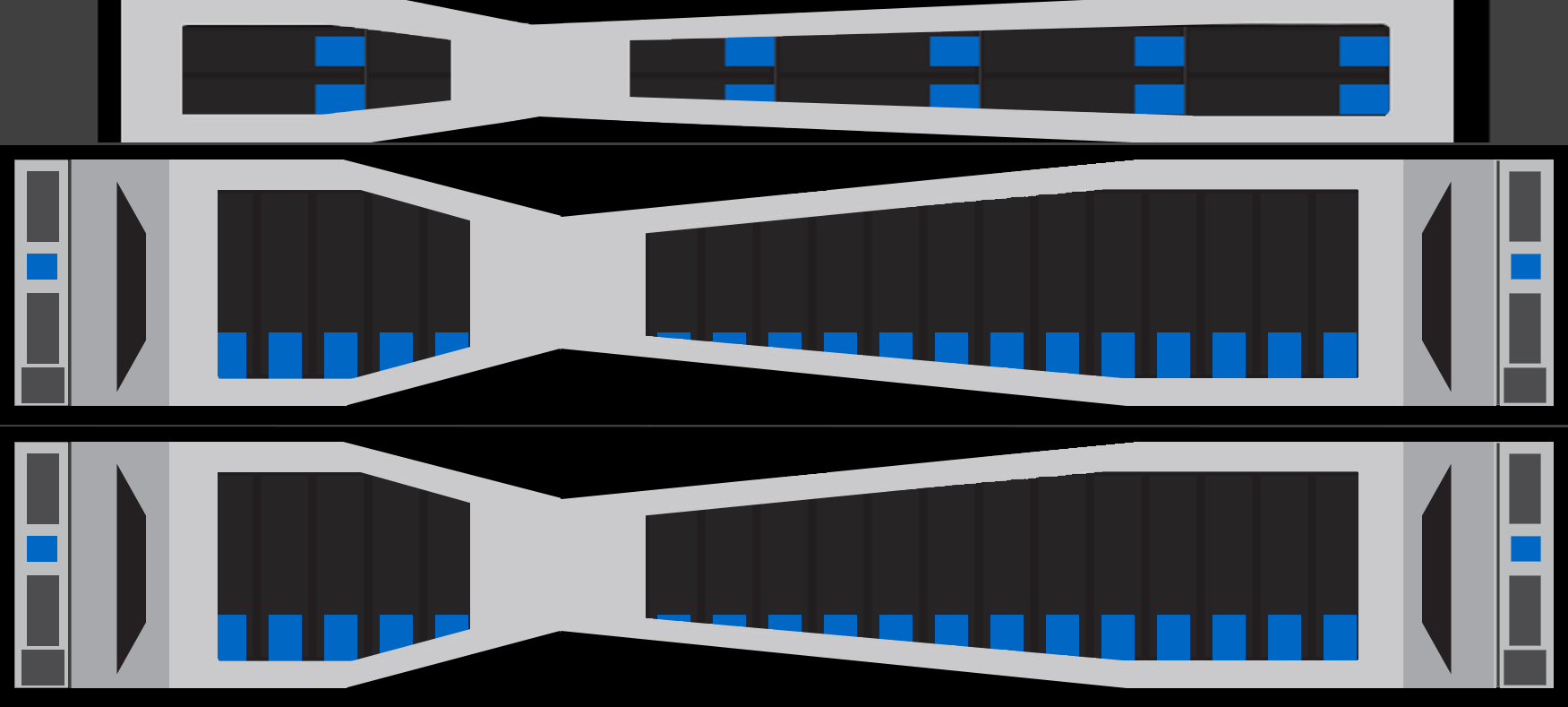 NetApp HCI